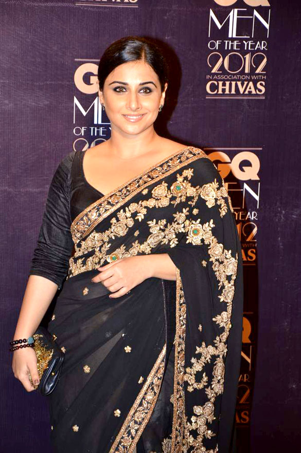 Vidya Balan at the GQ Men of the year awards, 2012